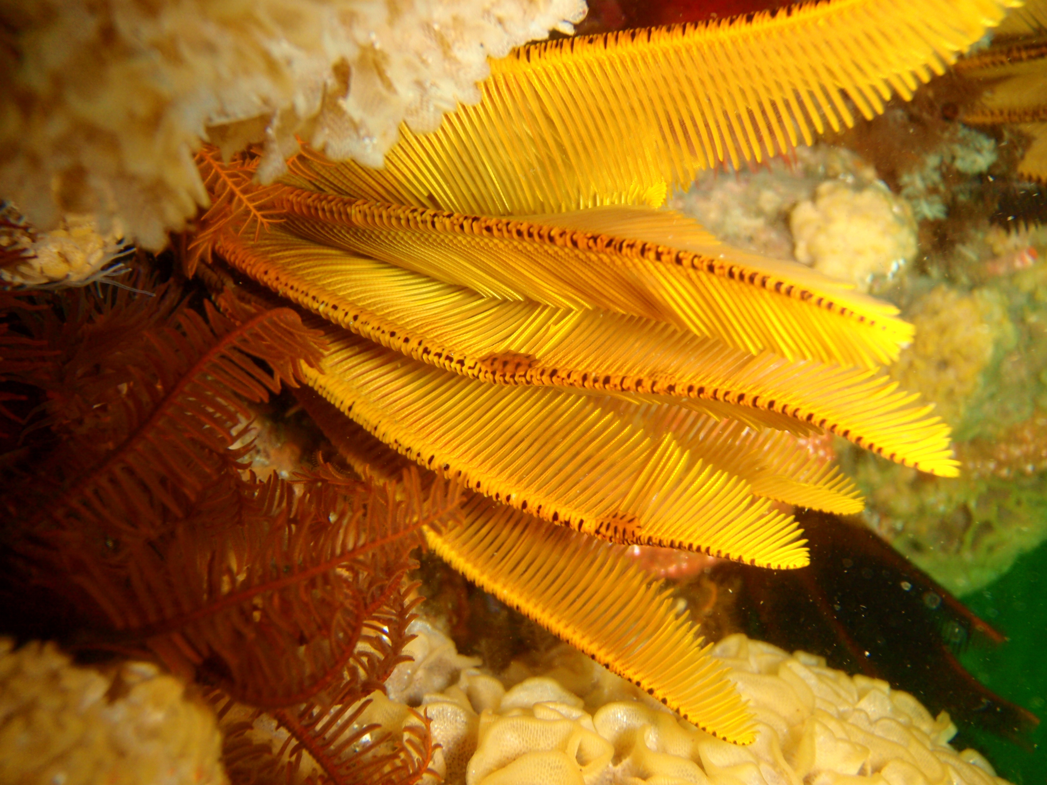 The myzostomid Myzostoma fuscomaculata on the crinoid Tropiometra carinata at Percy's Hole near Rooi-els, Western Cape, South Africa